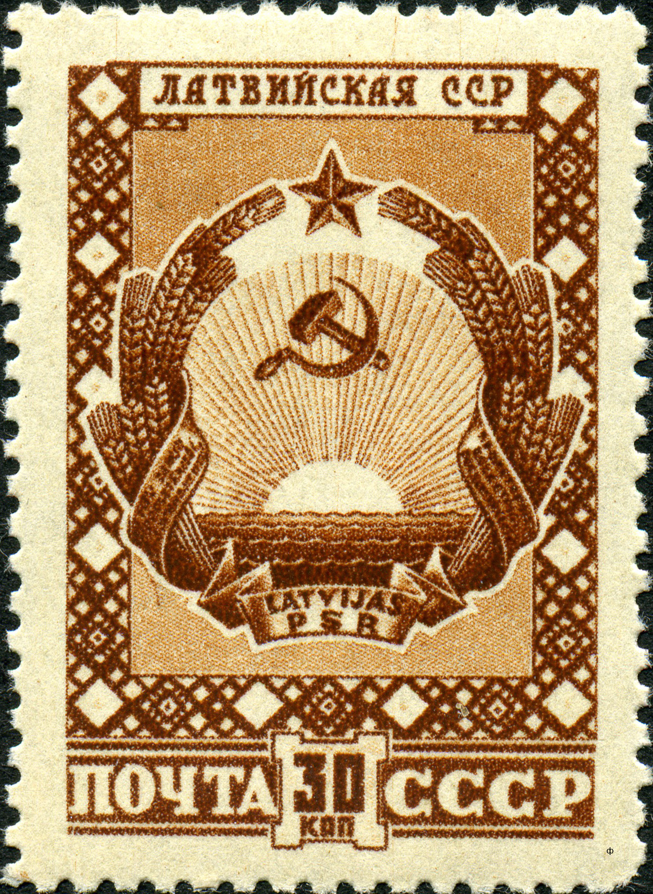 Postage stamp issued by the Soviet Union 1947 depicting coat of arms of the Latvian SSR. CPA 1123